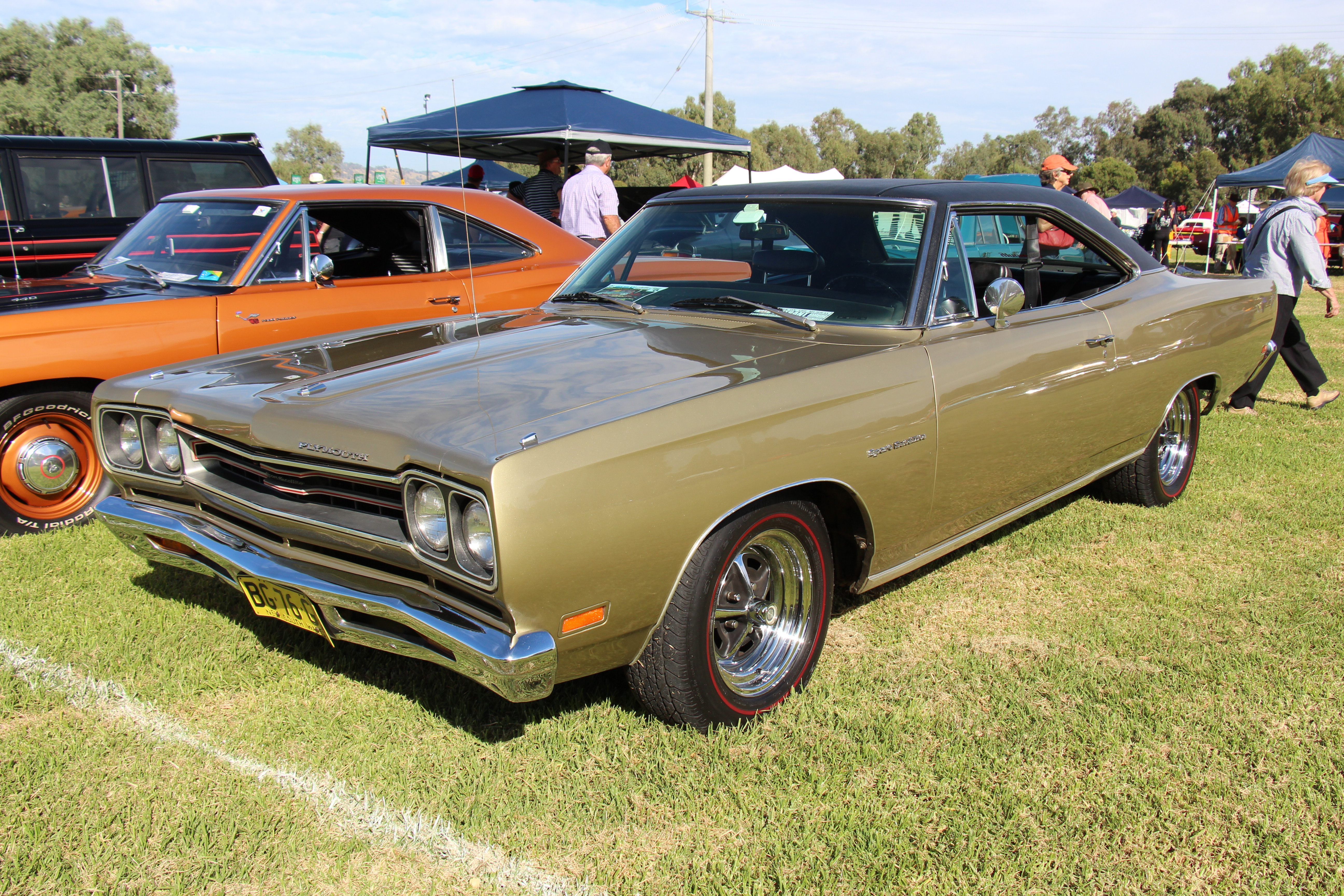 From 1965 the B body Plymouths (same platform as the Dodge Coronet and Charger) were available in base model Belvedere (with high performance Road Runner option) and upmarket Satellite (with high performance GTX option). In 1969 the Satellite was now available in 4 door form and a higher spec Sport Satellite introduced. Engines; 273, 318, 361, 383 and 426 Hemi V8s